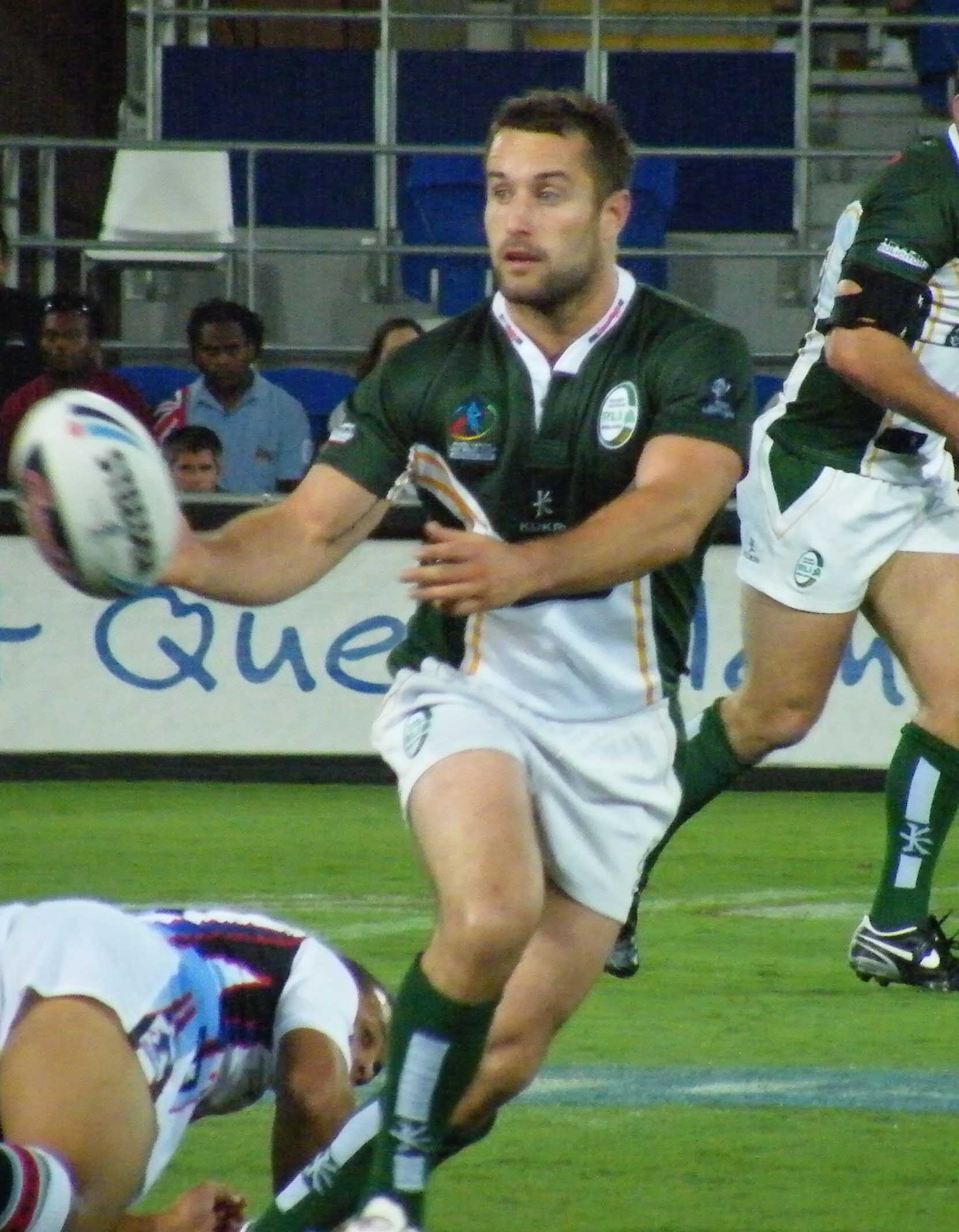 RLWC - Fiji v Ireland, Gold Coast 2008. Ireland hooker Bob Beswick.